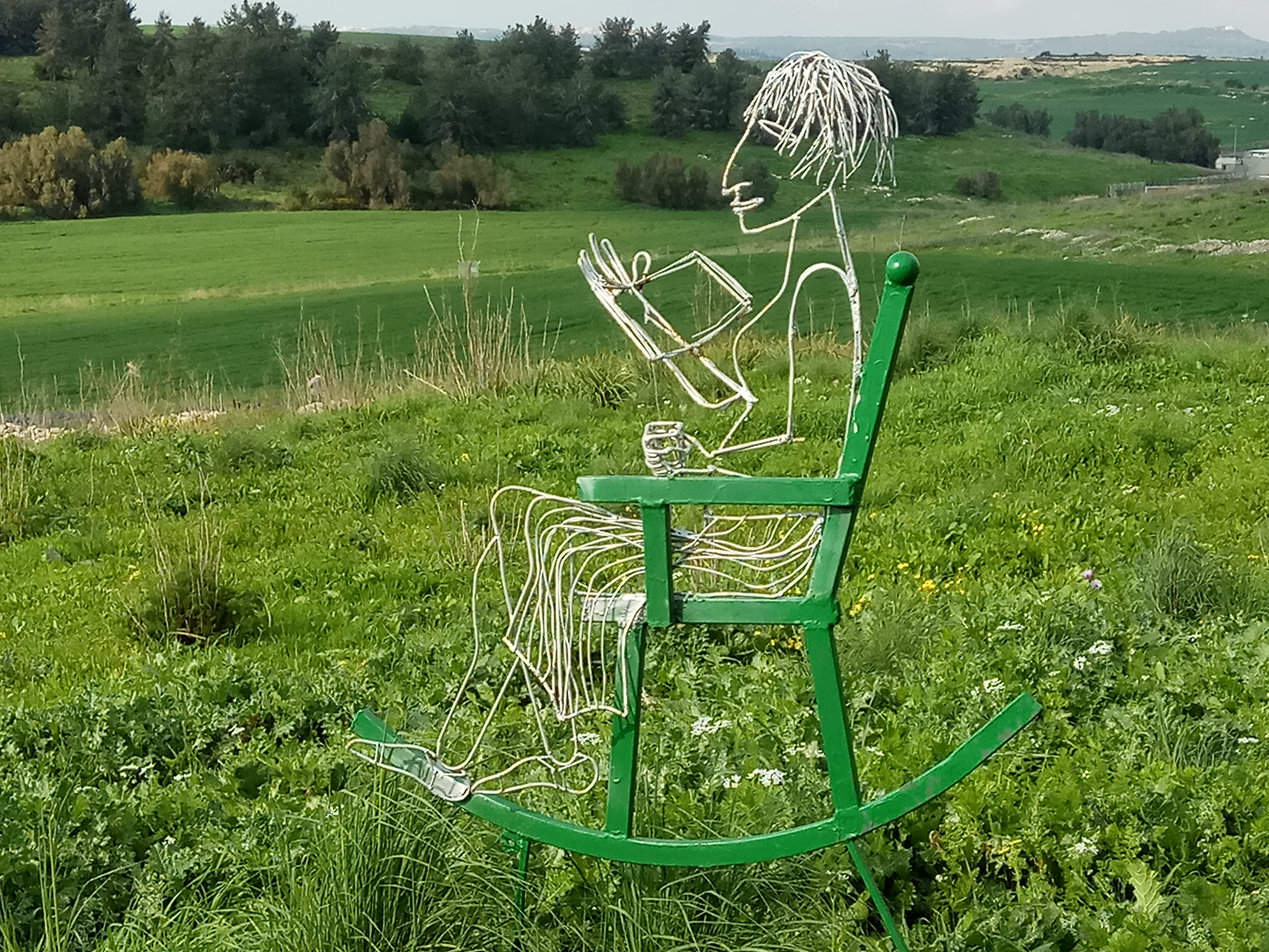 Nili Kaufman Observation Point